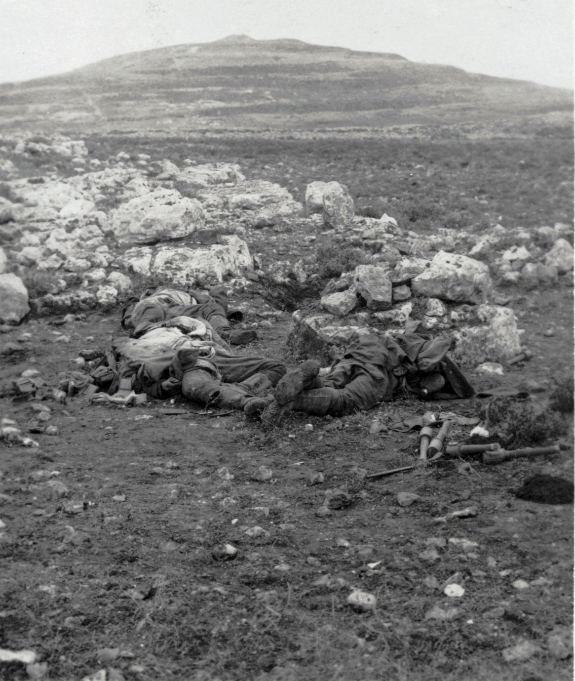 Turkish dead at Tell el Ful, 1917. LC-DIG-ppmsca-13291-00048 (digital file from original, page 17, no. 48).